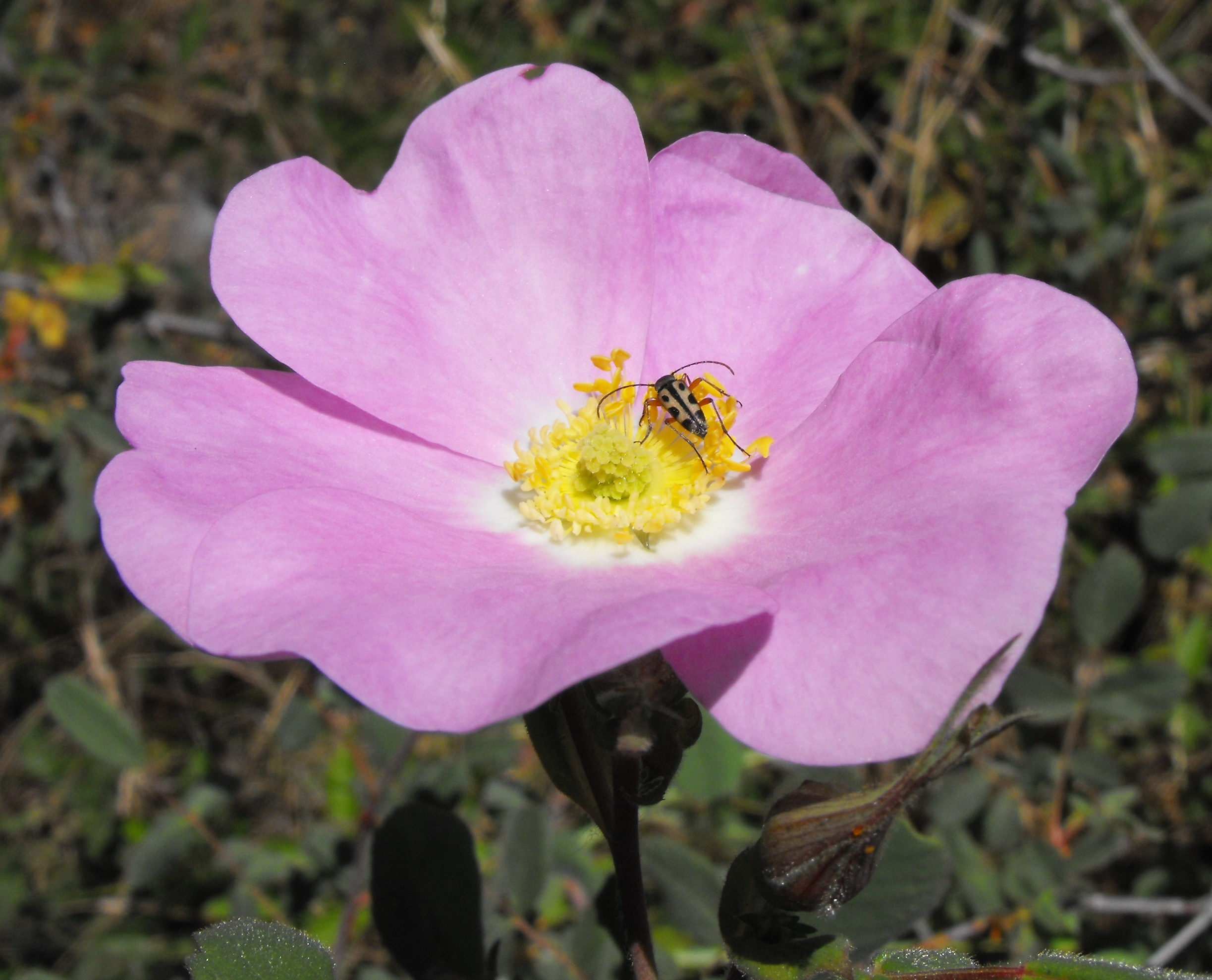 Rosa californica in Oakoasis Open Space Preserve in Lakeside, California, USA.